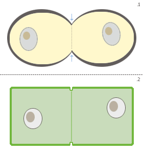 animal and plant cell cytokiness diagram